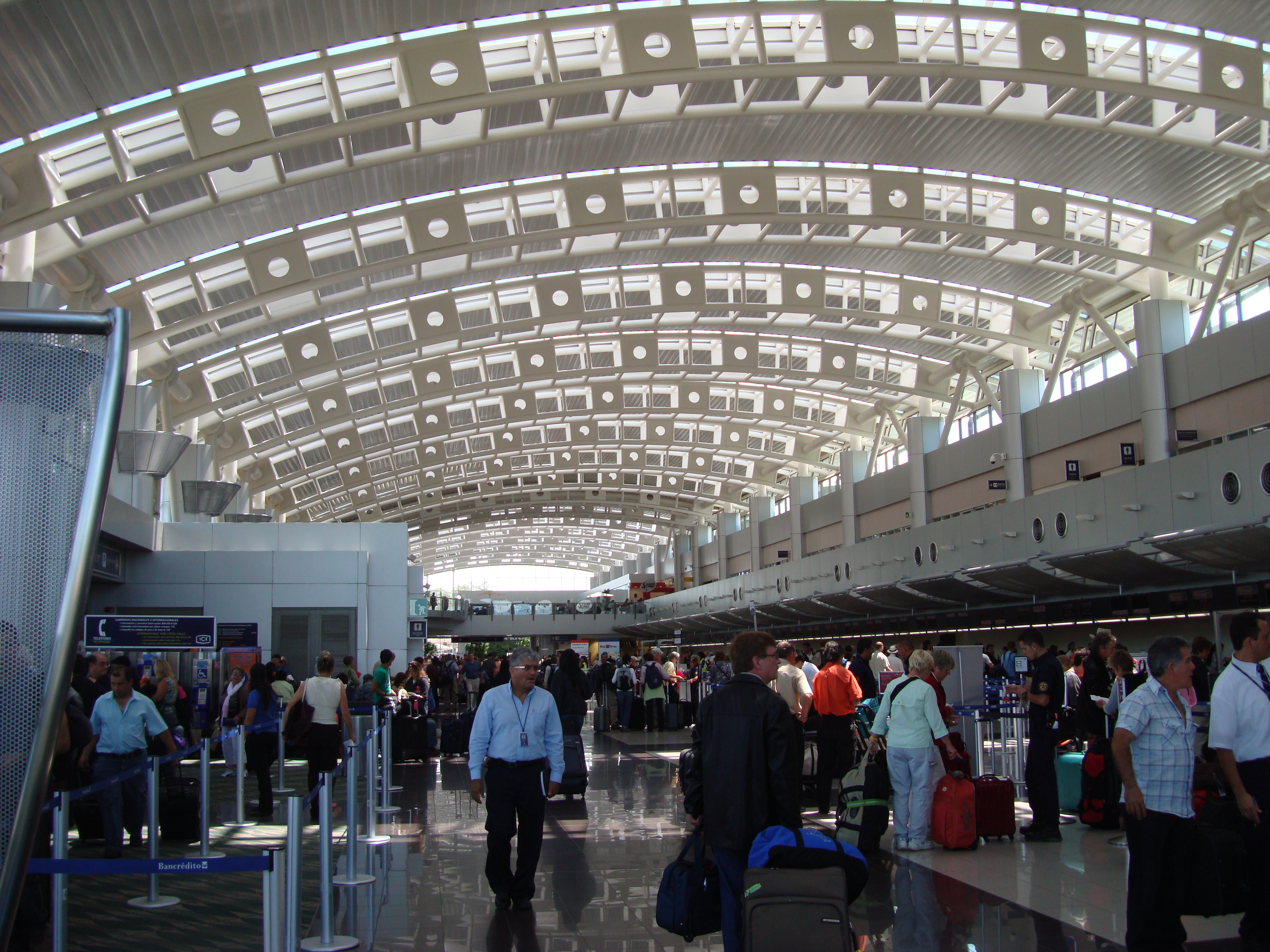 The main terminal check-in at San Jose International Airport, Costa Rica